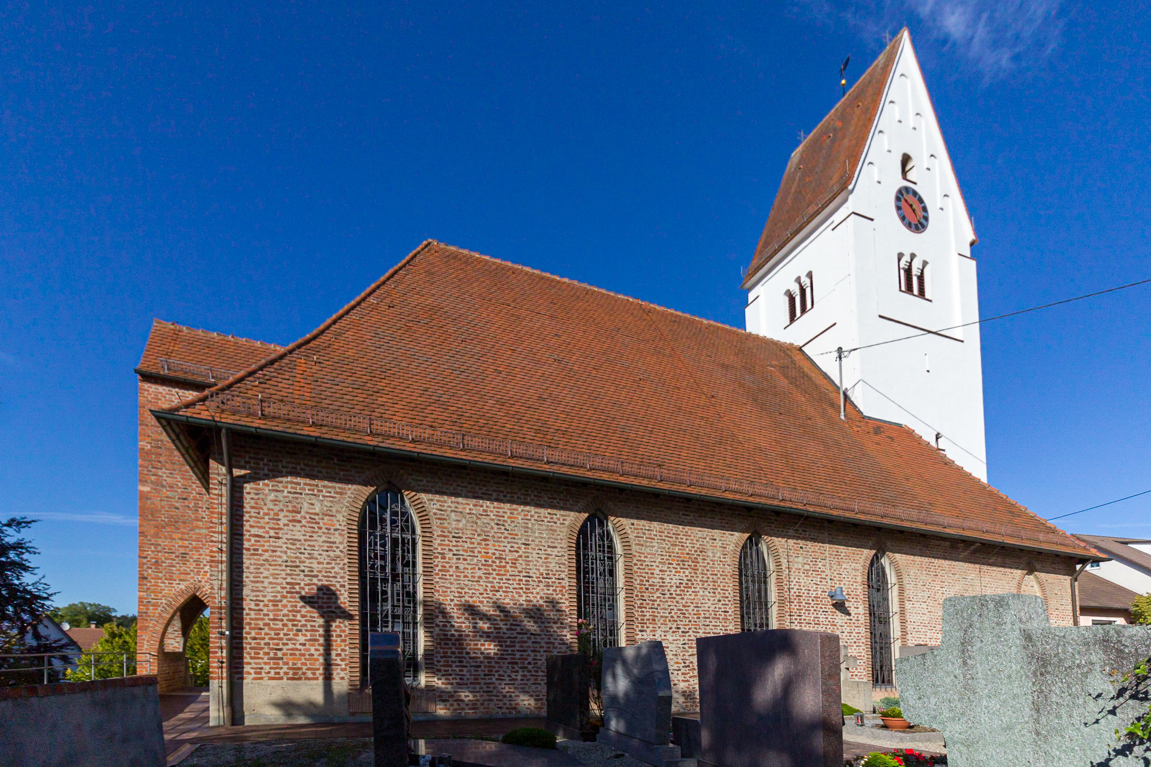 Catholic parish church Sankt Mariä VerkündigungThis is a photograph of an architectural monument.